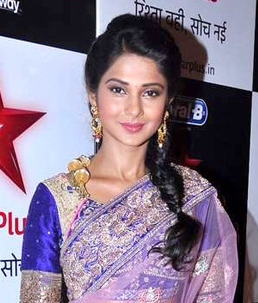 Winget at the '11th Star Parivaar Awards 2013'